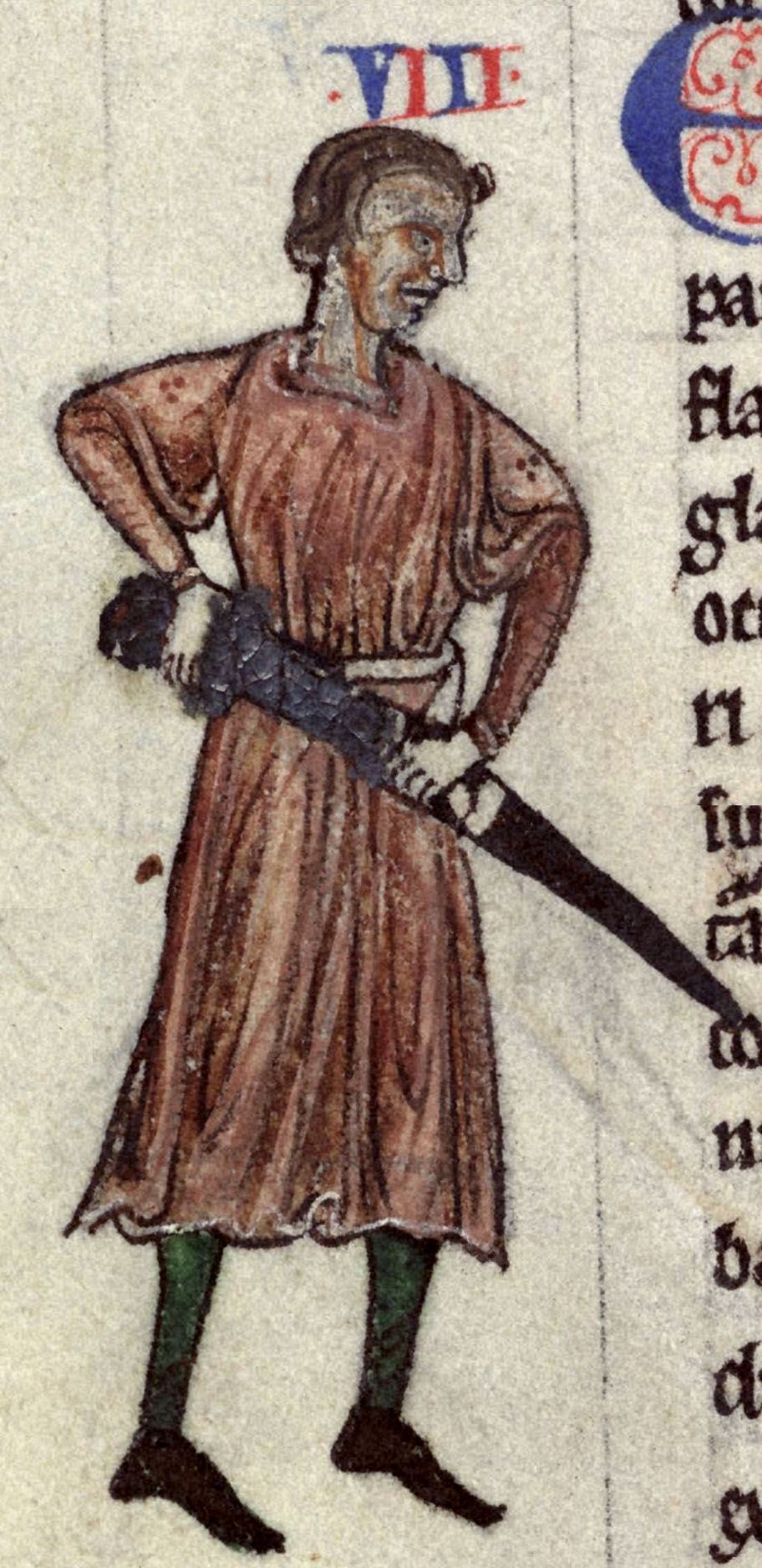 Raymond le Gros as shown in a 13th century manuscript of the Expugnatio Hibernica by Giraldus de Barri (Gerald of Wales)